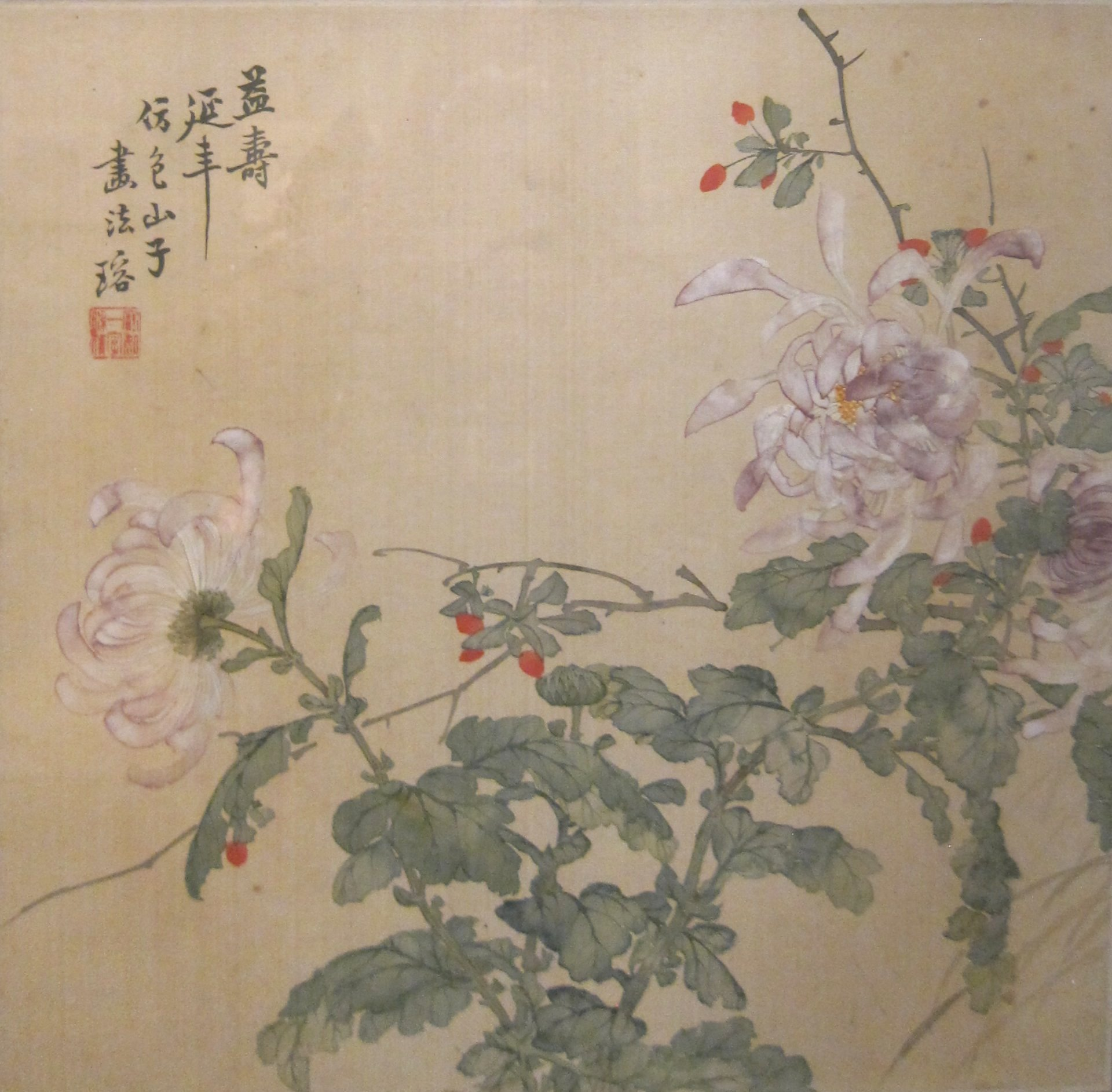 Wolfberry from Album of Flower Paintings, ink and color on silk by Tao Rong (1872-1927), late 19th-early 20th century, Honolulu Museum of Art